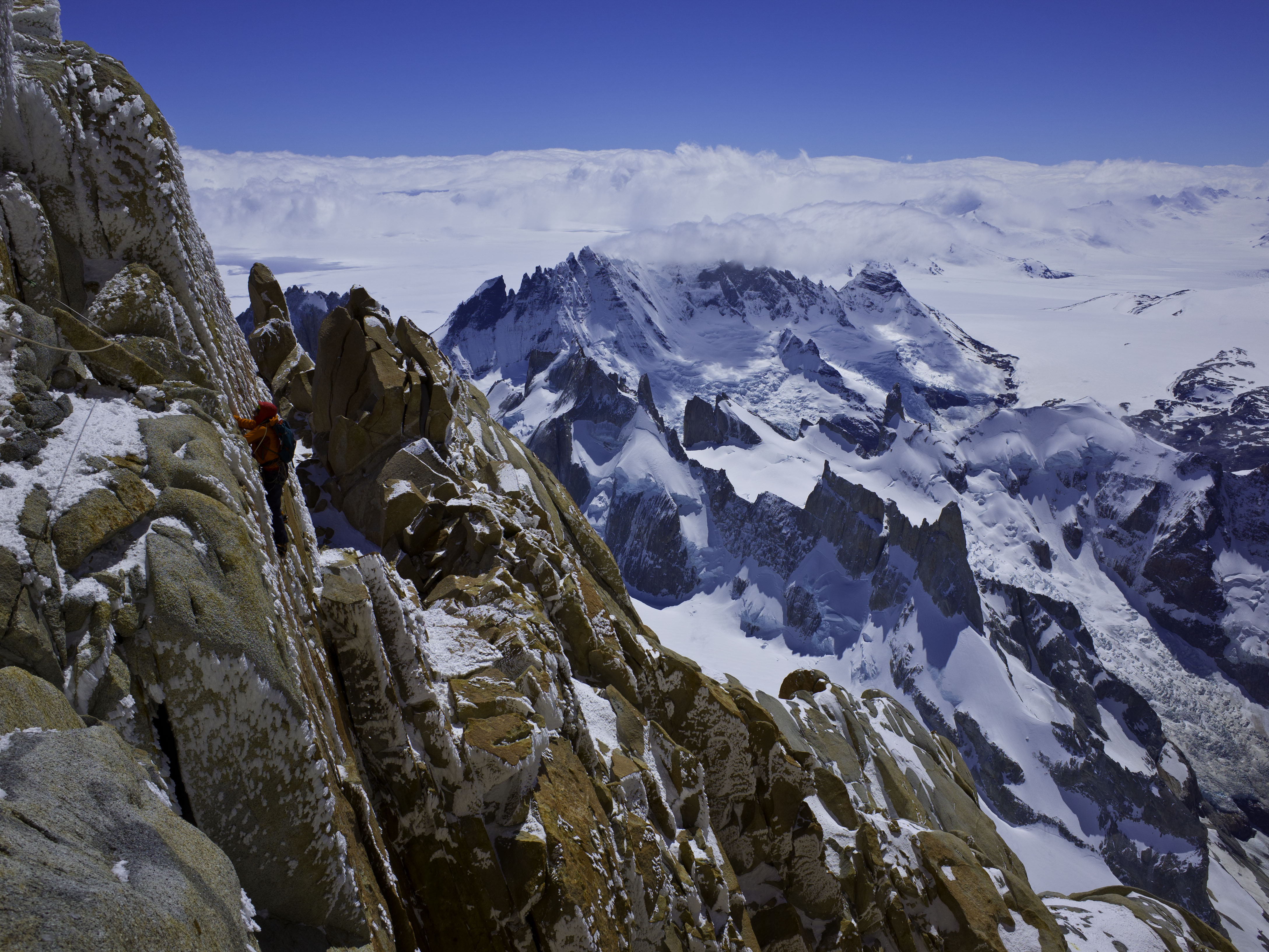 Fitz Roy, Patagonia. Photo by: Kristoffer Szilas.